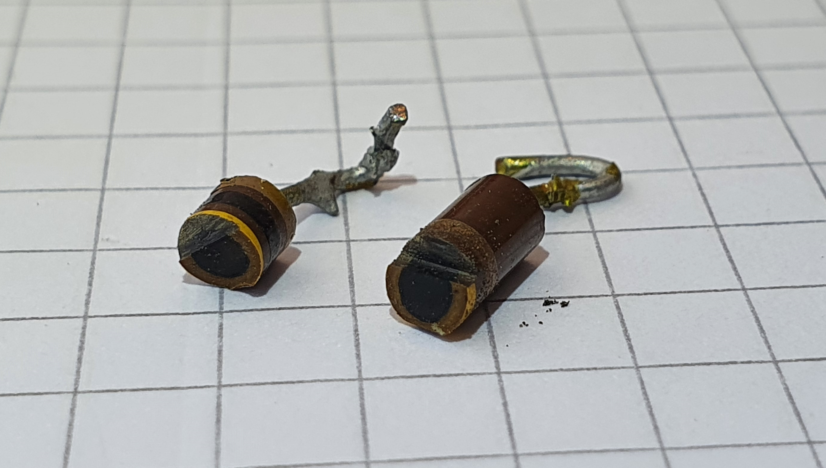 Not completely sawn and afterwards broken carbon composition resistor to show inner structure